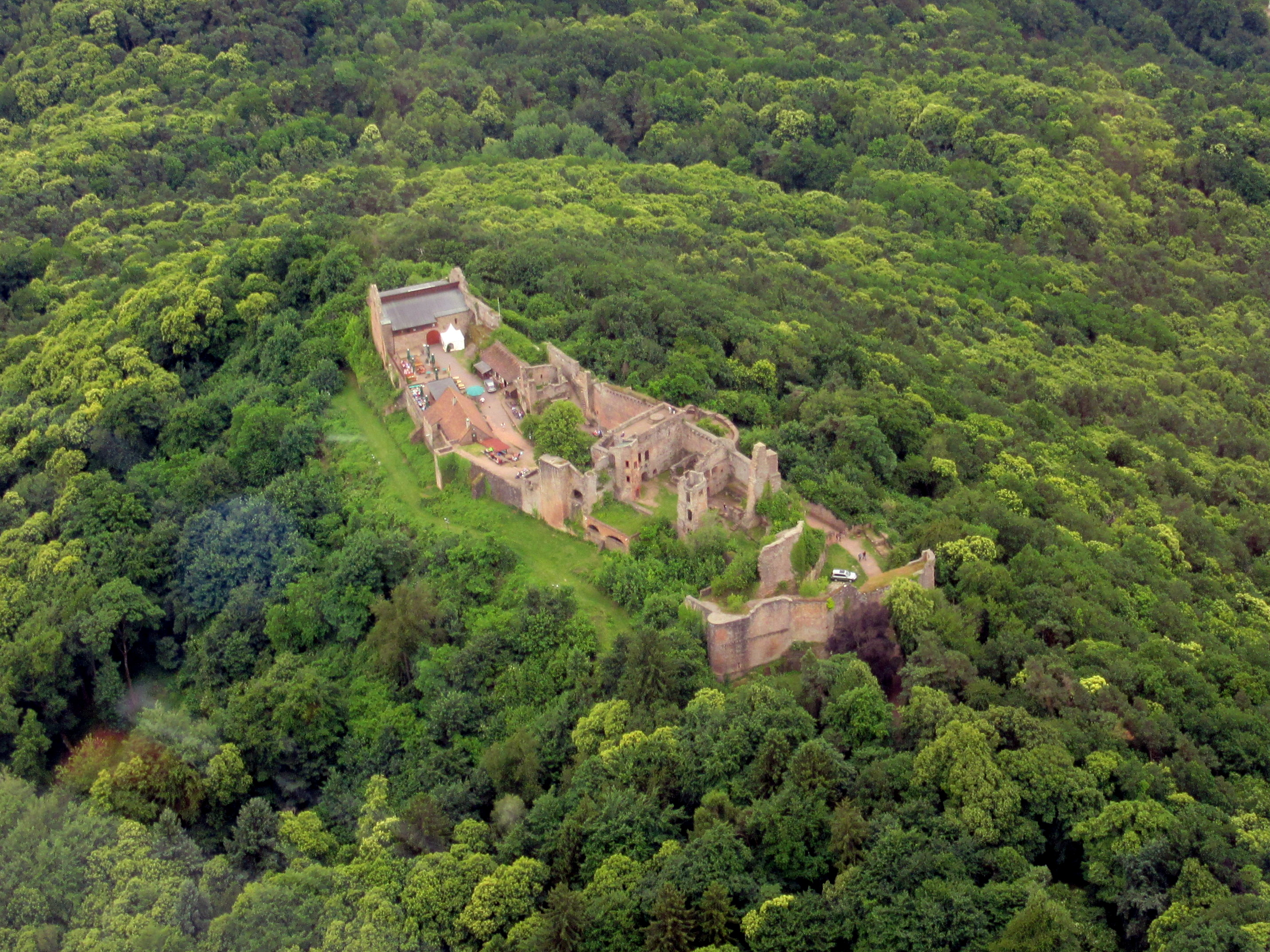 ruins of castle Madenburg near Eschbach, Germany, view from an airplane